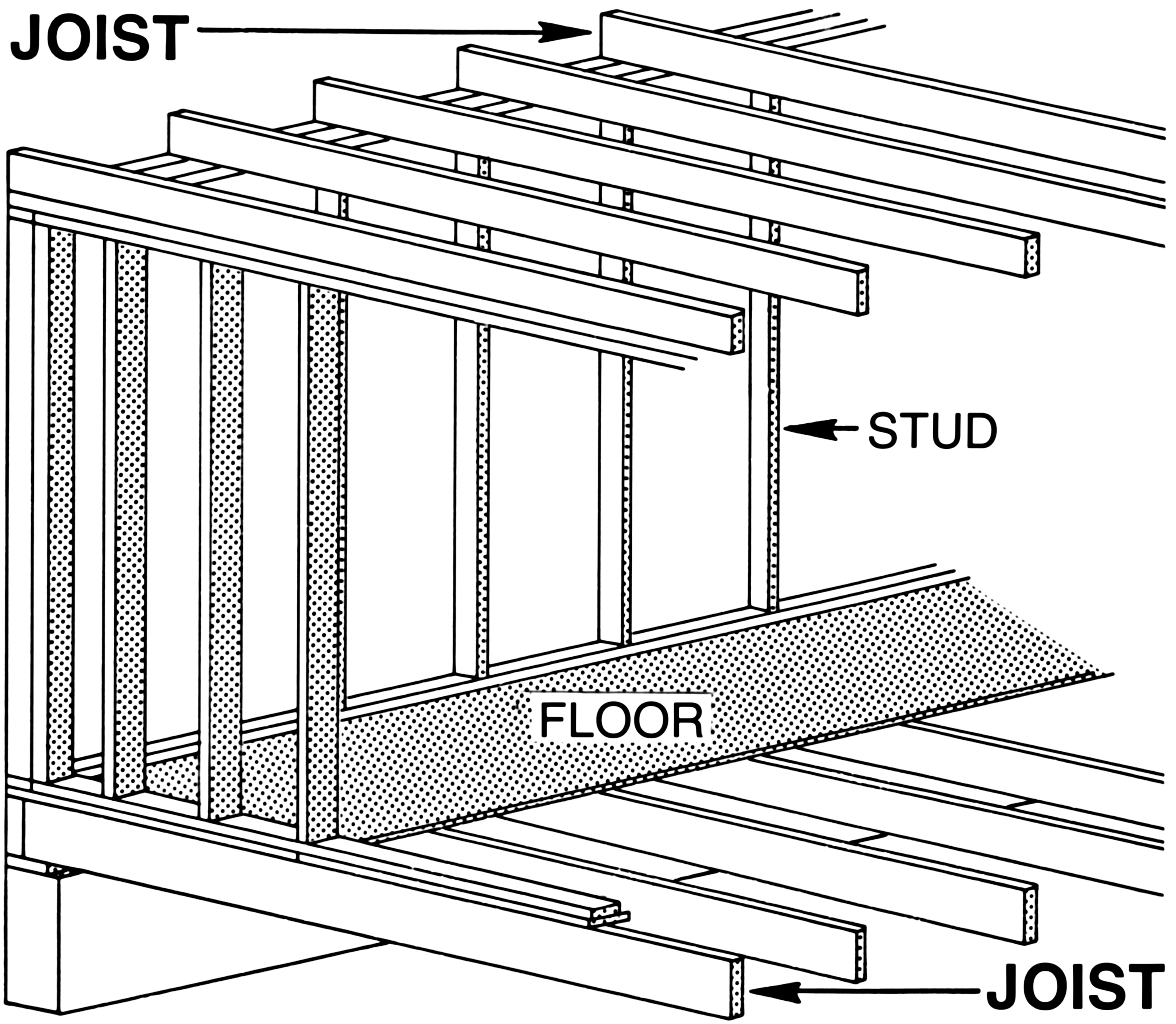 Line art of joist.